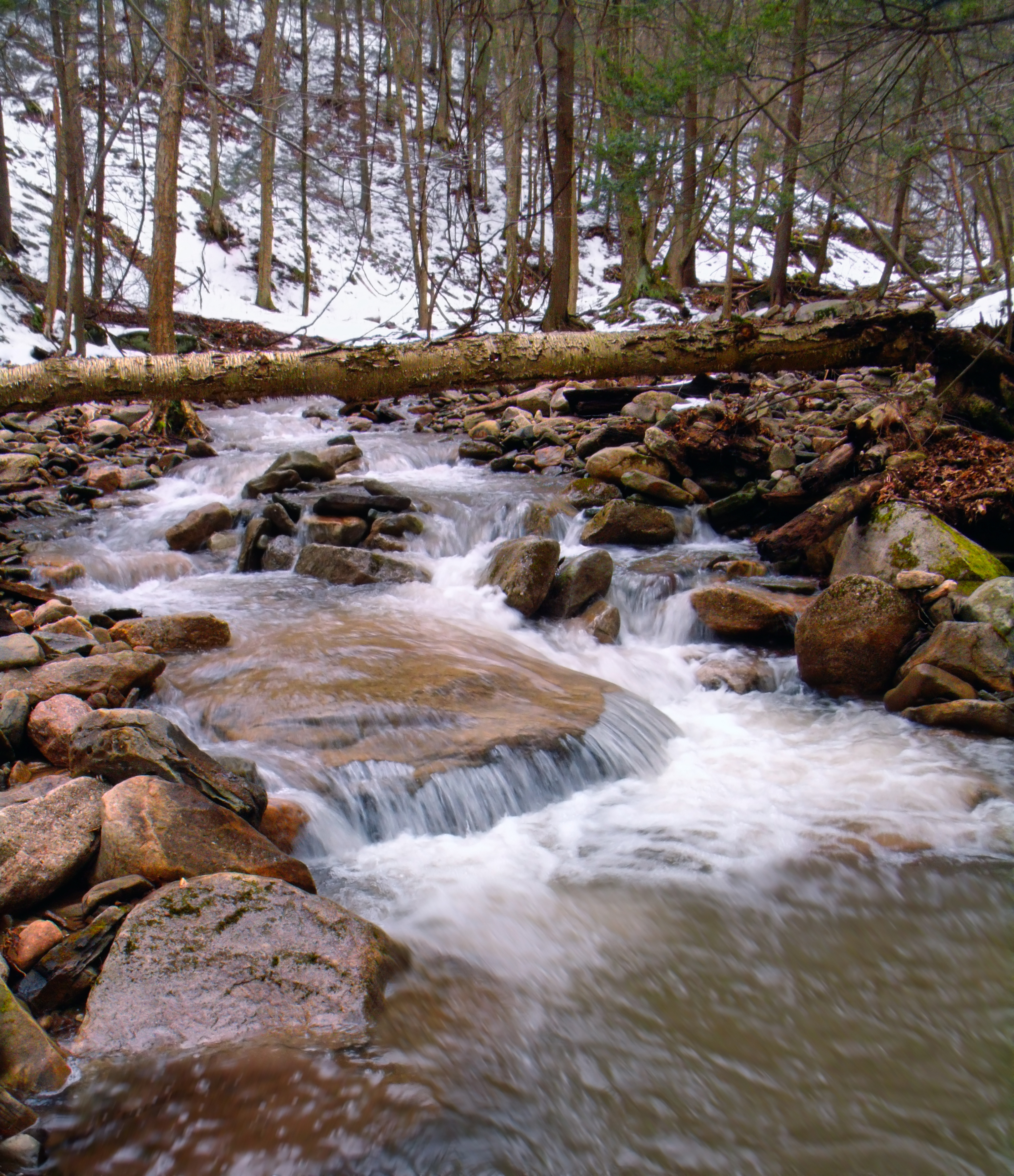 State Game Land 57, Wyoming County. White Brook descends Bartlett Mountain in a deep ravine of cobblestones, boulders, and a forest of hemlocks and northern hardwoods. (Many trees, I noted, were infested with the hemlock woolly adelgid.) Along its length are many cascades and small waterfalls.